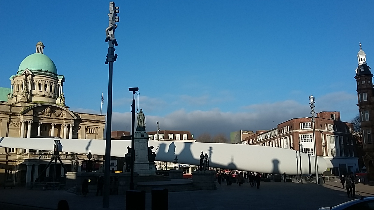 A 75m long wind turbine blade was placed in Hull's Queen Victoria Square as part of the UK City of Culture events of 2017.